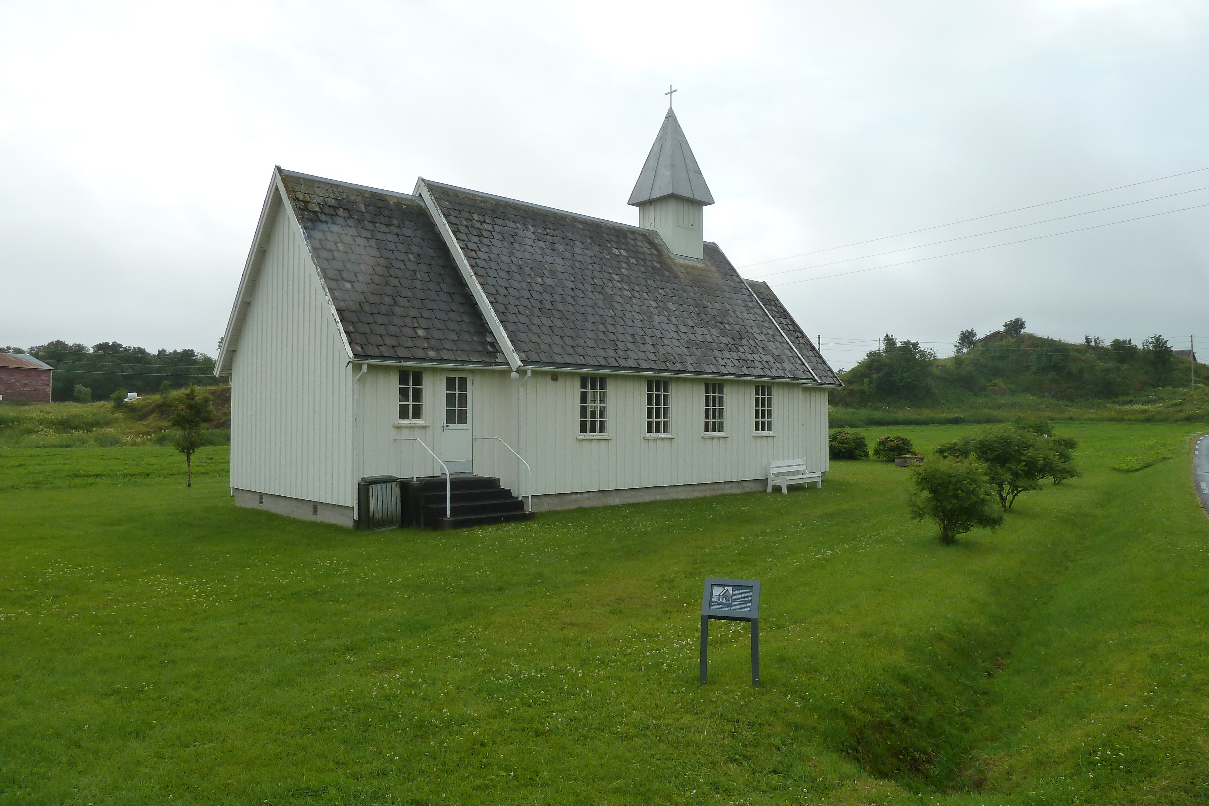 Ylvingen chapel in Vega, Nordland. Built in 1967.